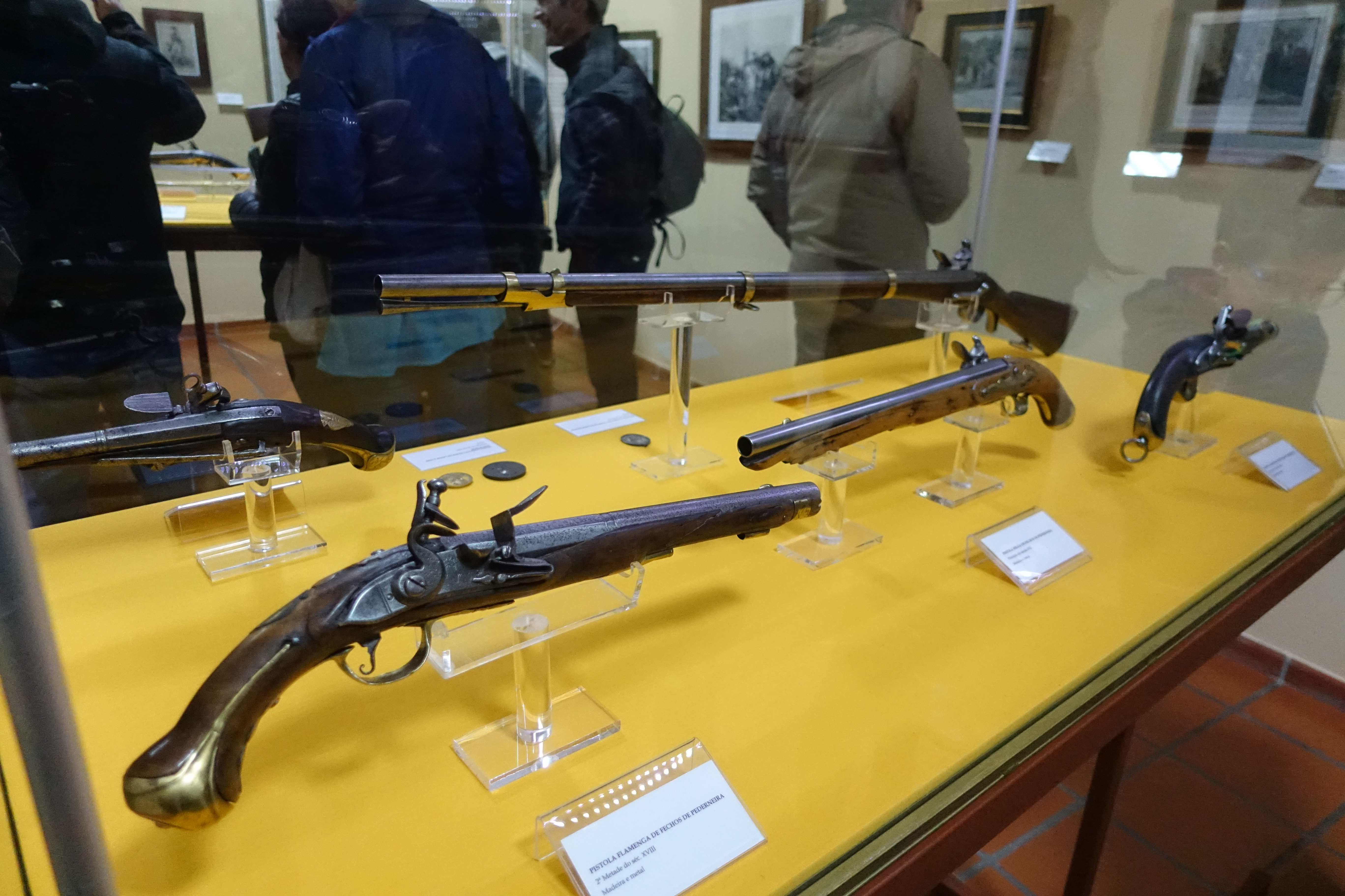 Military museum in Buçaco, Mealhada Portugal